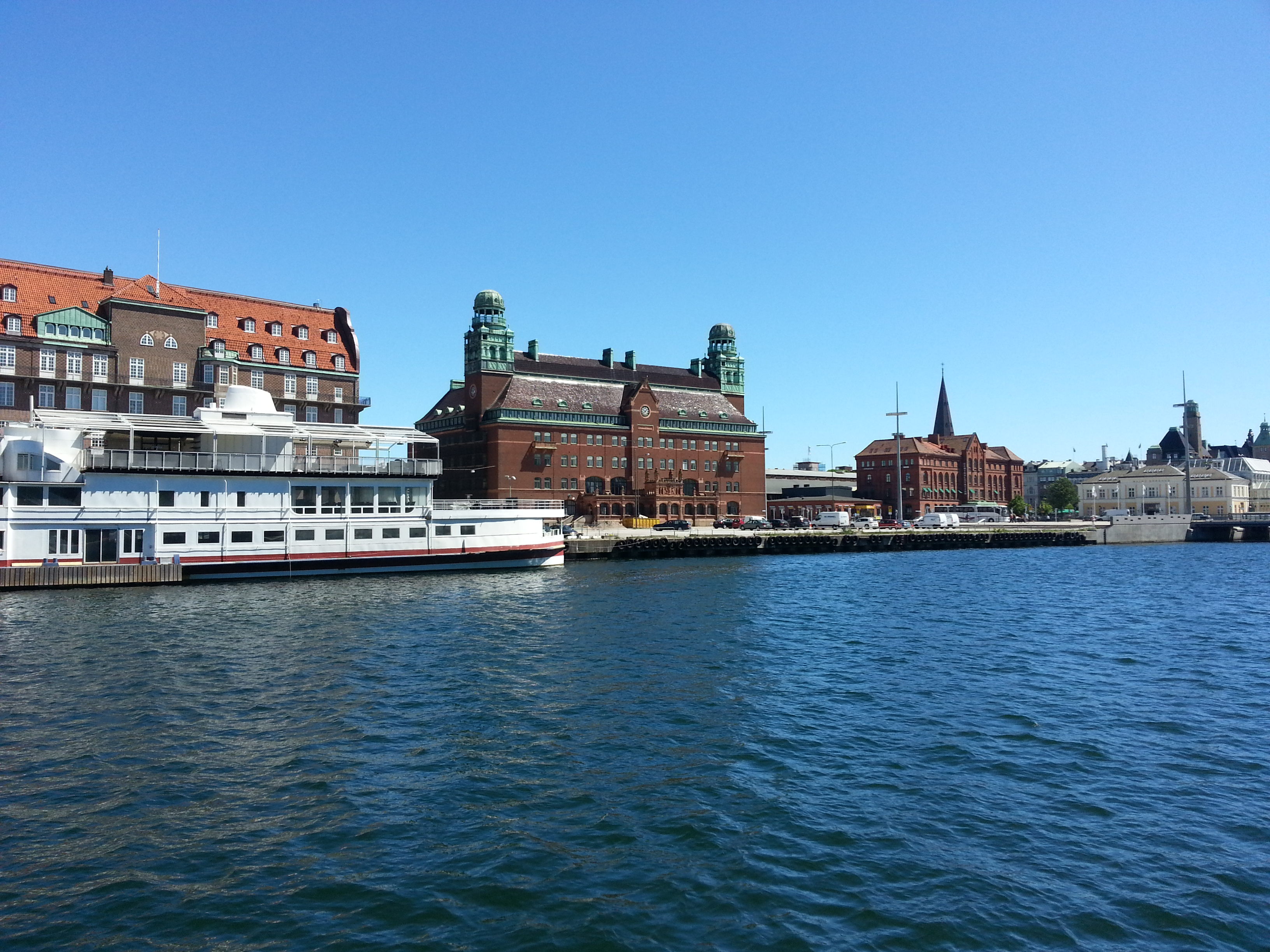 Malmö's former central post office, seen from Orkanen (main university building)